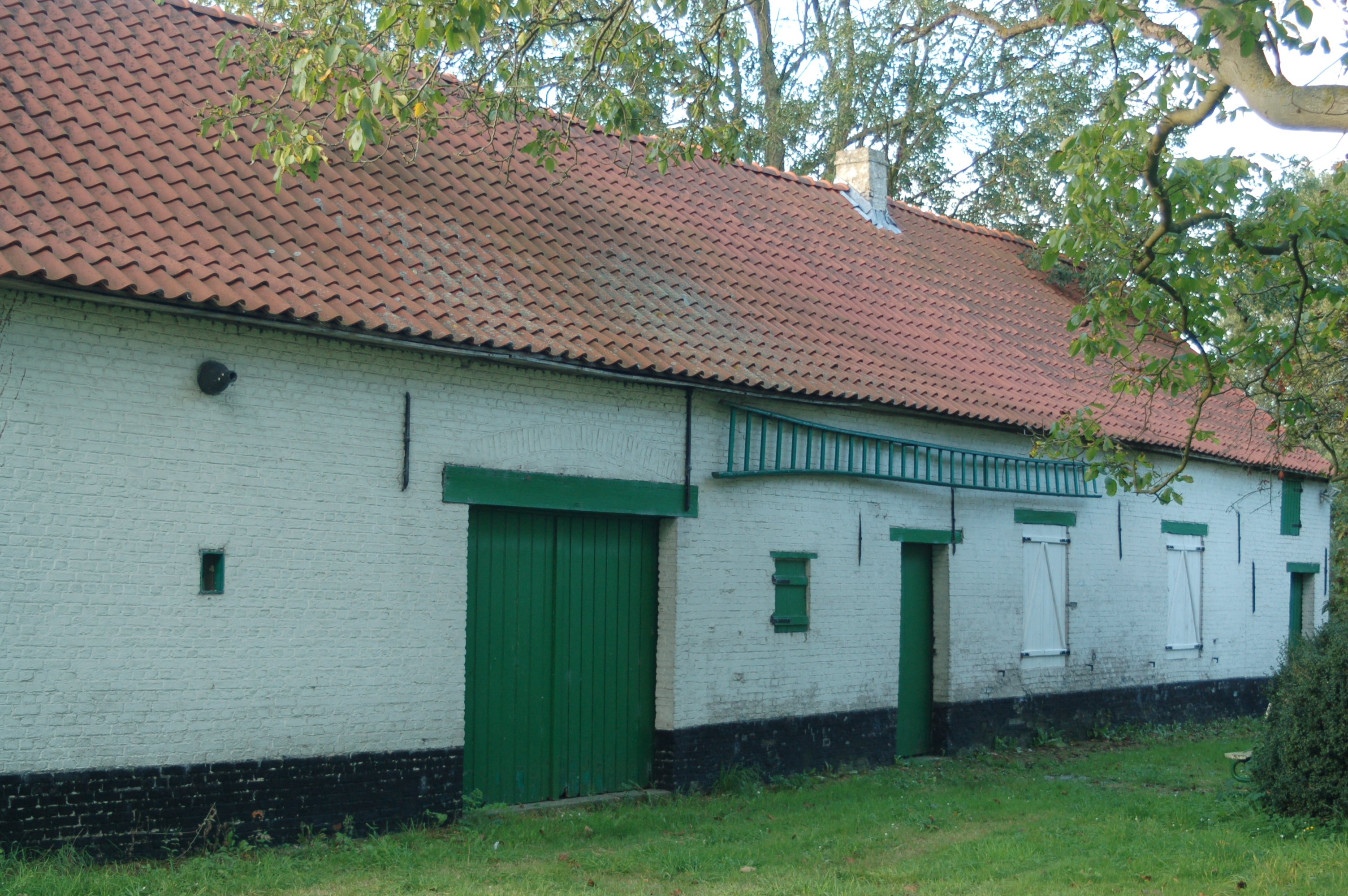 The old Sooikesik farmhouse, the oldest house of Het Zwartland, Zemst-Bos